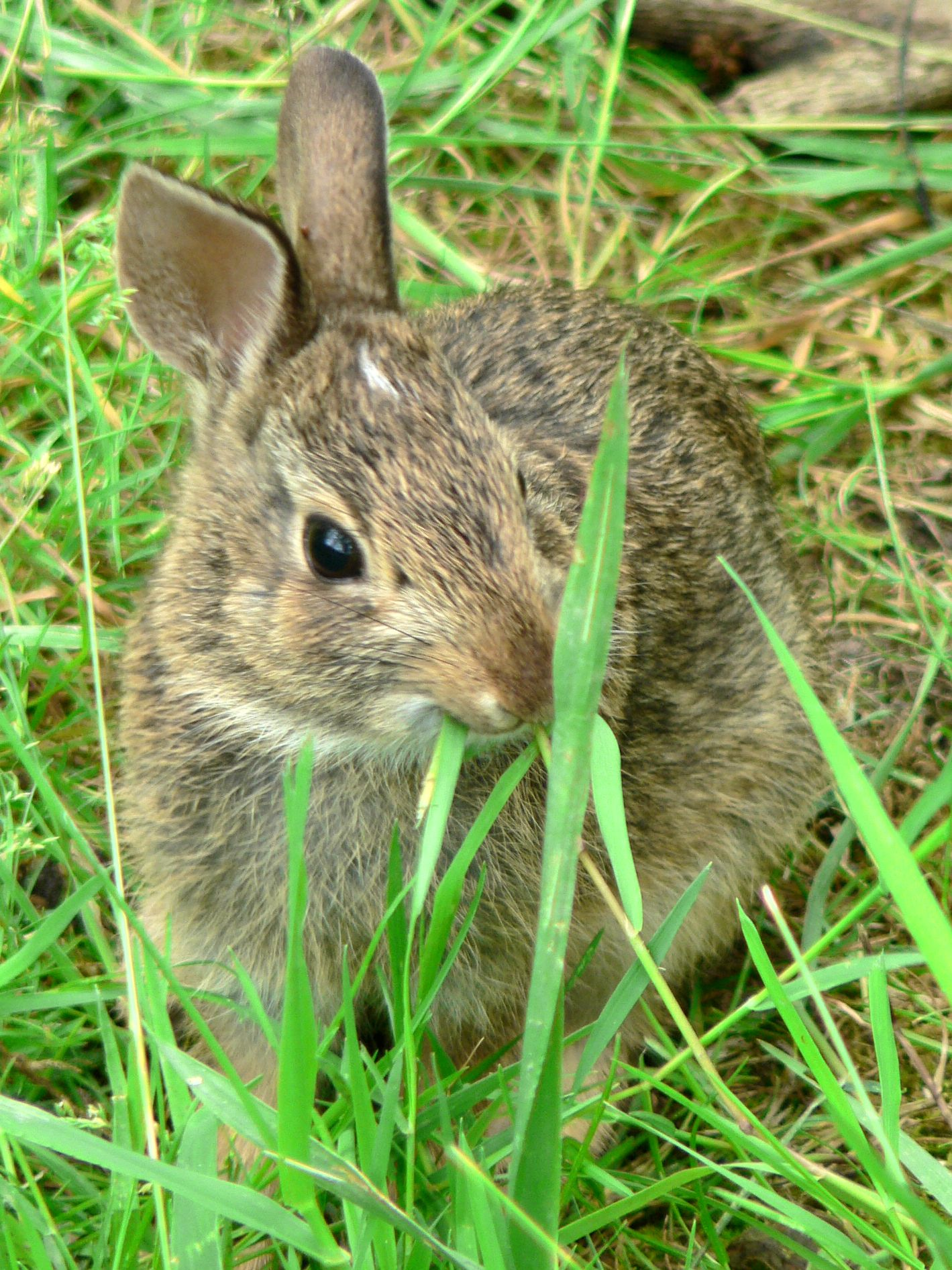 Sylvilagus floridanus Description: Eastern Cottontail (Sylvilagus floridanus) Viewpoint location: Kiwa Trail, River S Unit Ridgefield National Wildlife Refuge Viewpoint elevation: 10 feet View direction: N/A Camera: Panasonic Lumix DMC FZ5 ©2006 Walter Siegmund